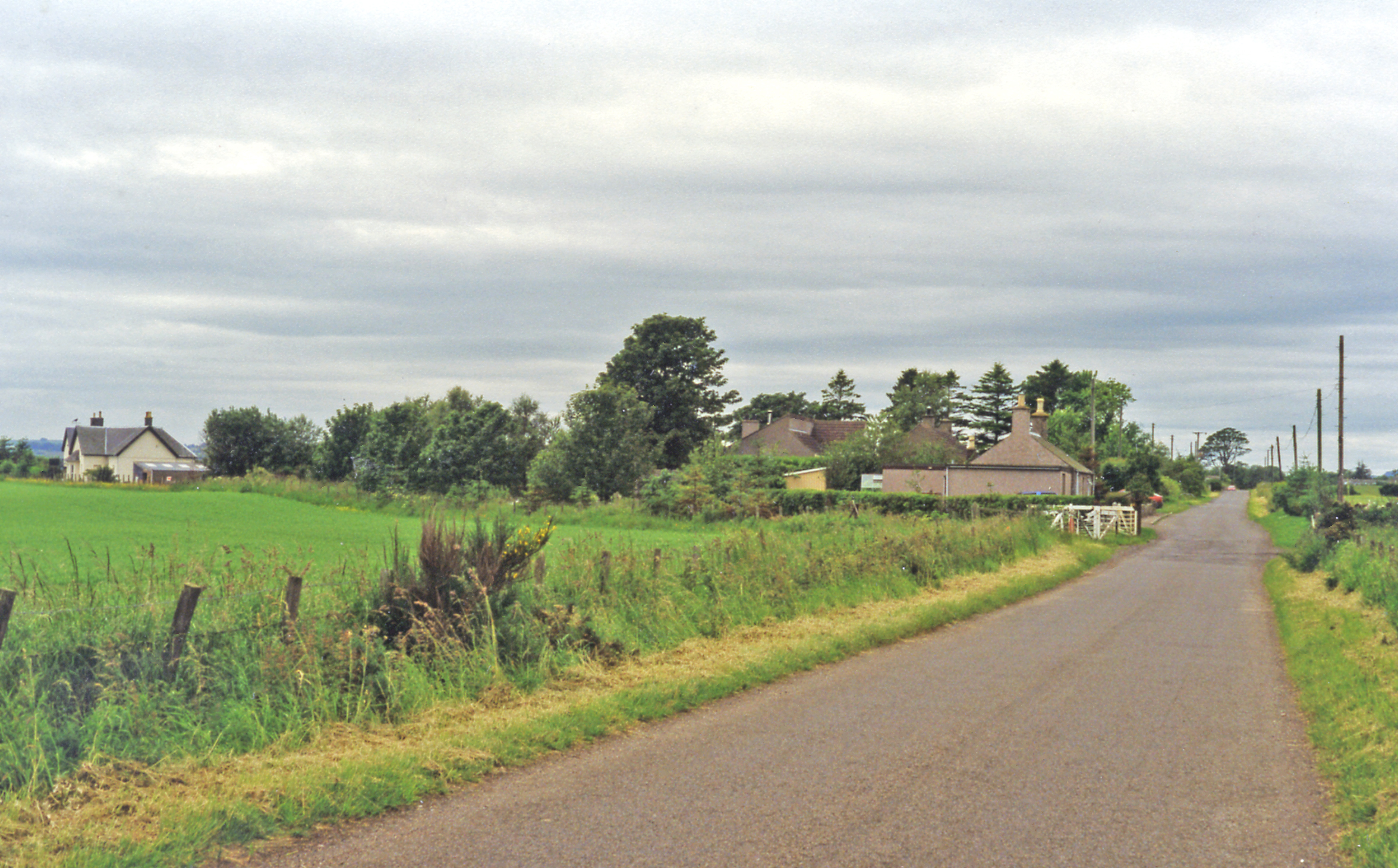 Glasterlaw station (site/remains), 1997. View SW, approaching a former level-crossing over the ex-Caledonian Railway main line, Perth - Forfar (to left)- (to right) Kinnaber Junction (- Aberdeen), which was closed 4/3/67. Glasterlaw station - over on the left - had been closed to passengers 2/4/51, to goods 11/6/56.